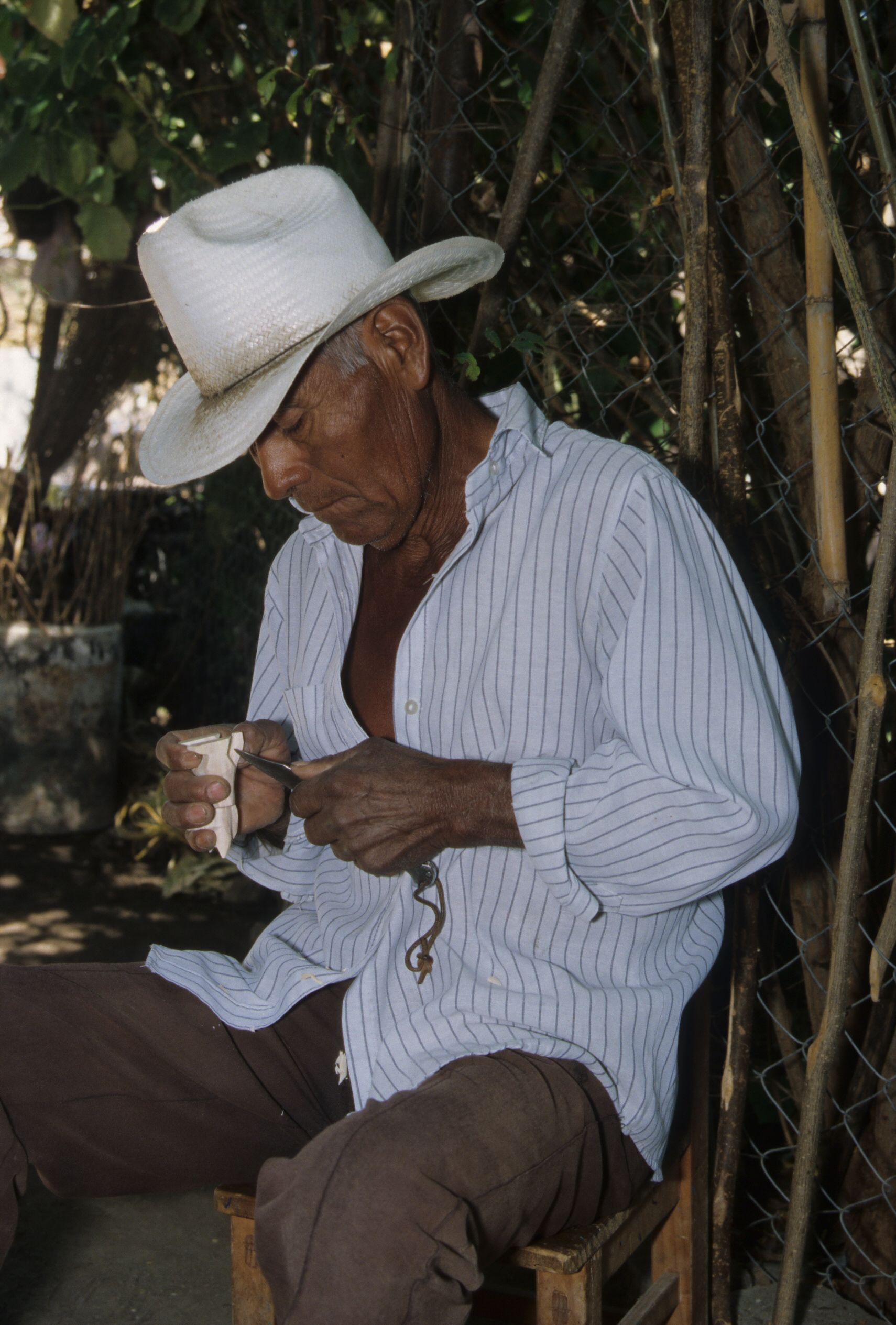 Abad Xuana Luis working on a piece in San Martin, Oaxaca